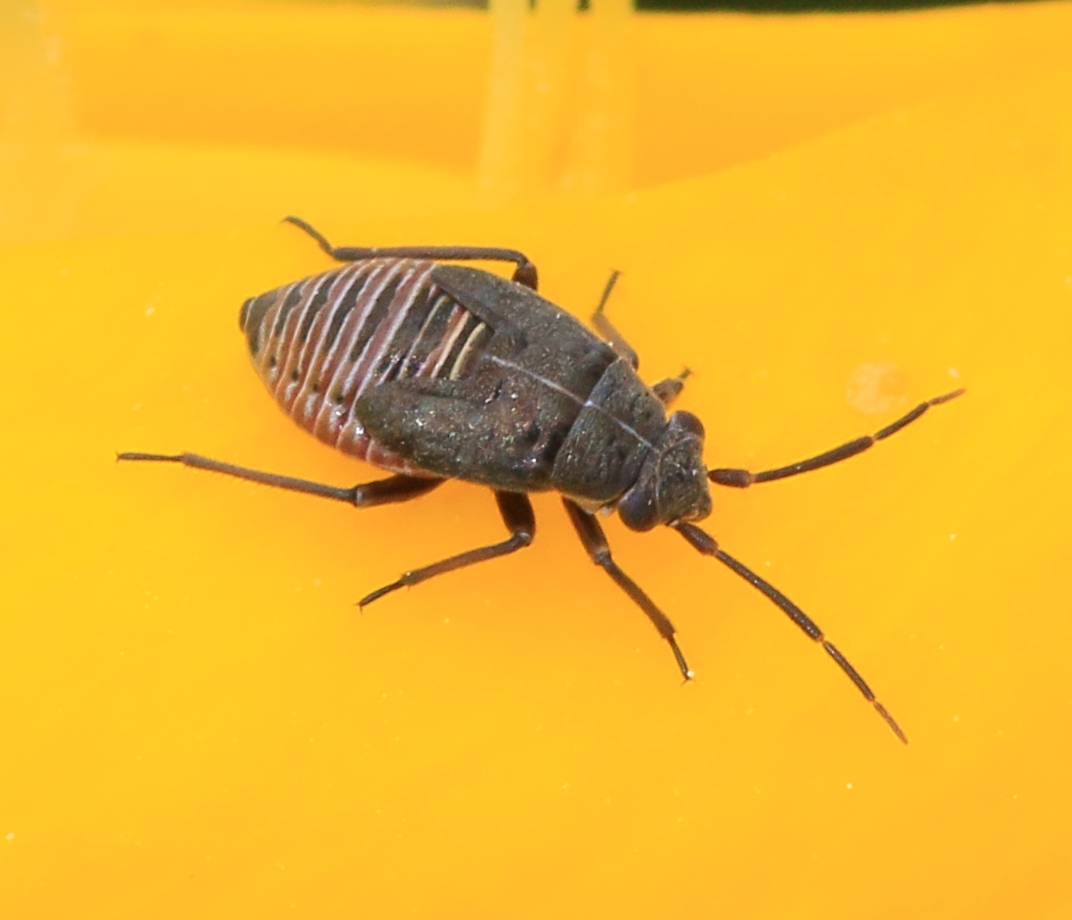 Ballchraggan Wood, Kildary, Scotland